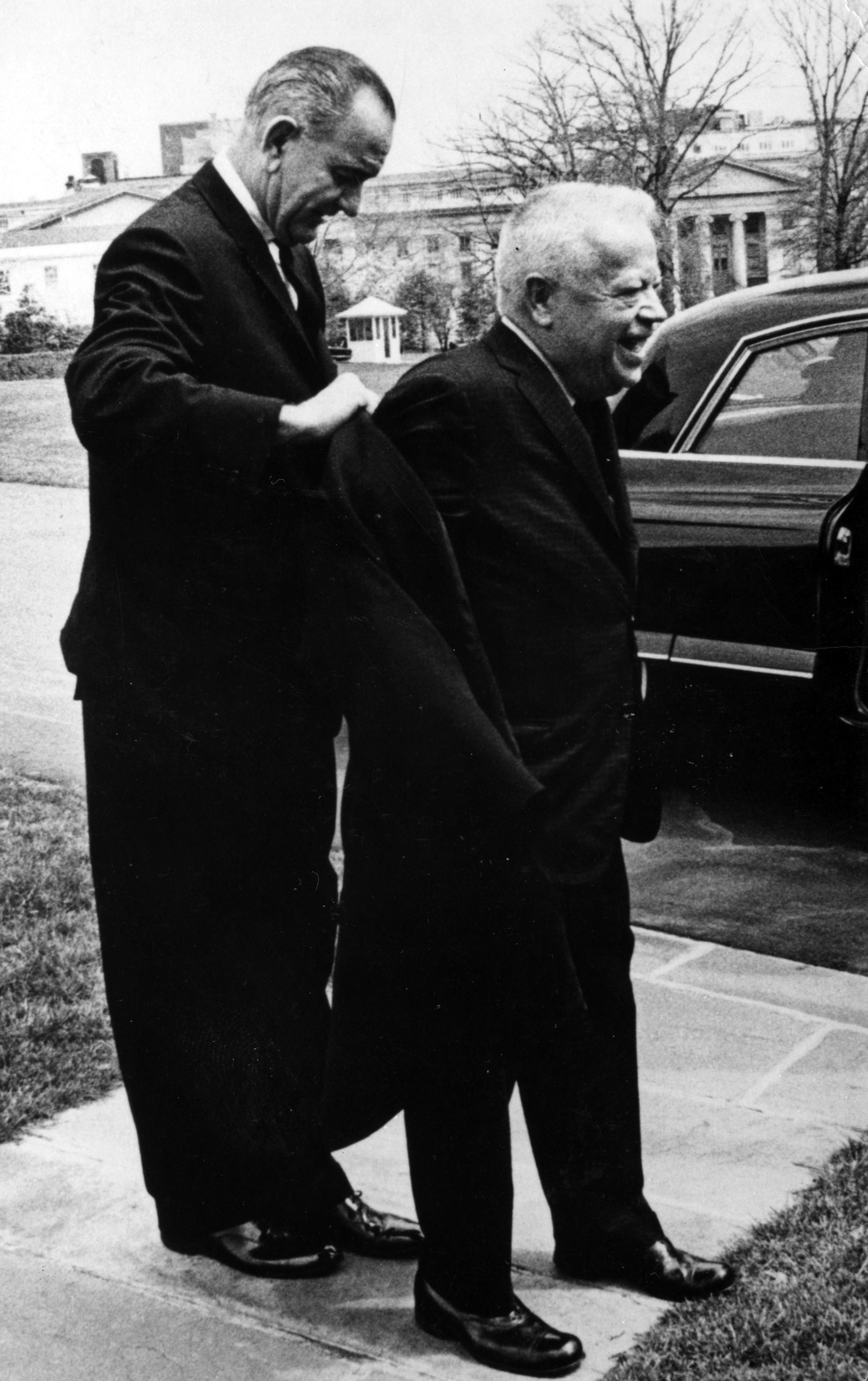 Title: Lyndon B. Johnson helps David Dubinsky put on his coat. Date: Unknown Photographer: Unknown Photo ID: 5780PB15F12B Collection: International Ladies Garment Workers Union Photographs (1885-1985) Repository: The Kheel Center for Labor-Management Documentation and Archives in the ILR School at Cornell University is the Catherwood Library unit that collects, preserves, and makes accessible special collections documenting the history of the workplace and labor relations. Notes: Post card. No additional information available. Copyright: The copyright status of this image is unknown. It may also be subject to third party rights of privacy or publicity. Images are being made available for purposes of private study, scholarship, and research. The Kheel Center would like to learn more about this image and hear from any copyright owners who are not properly identified so that we may make the necessary corrections. Tags: Kheel Center for Labor-Management Documentation and Archives,Cornell University Library,Labor Leaders, Public Figures, Union Officers